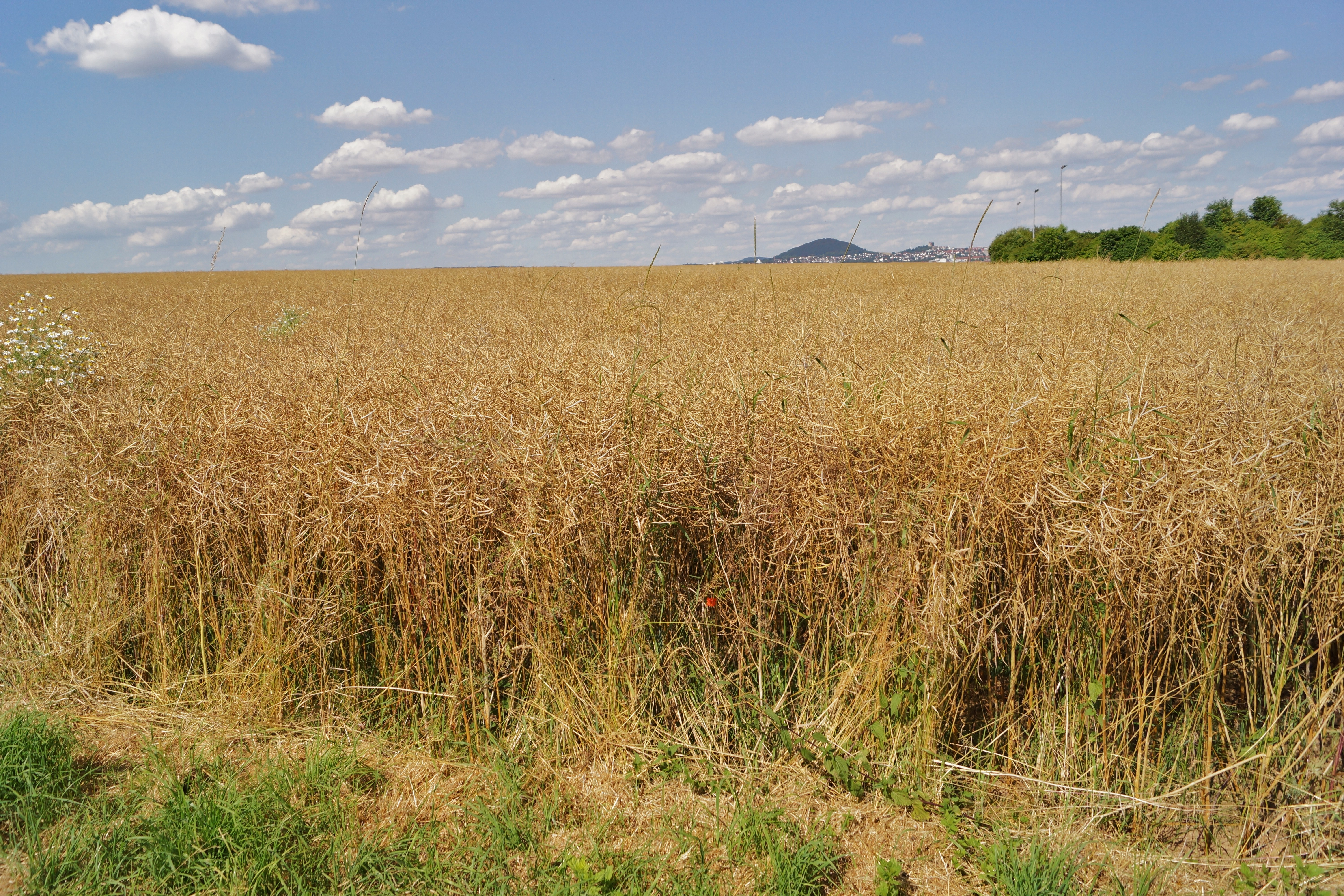 Rapeseed field near Fulda in Hesse